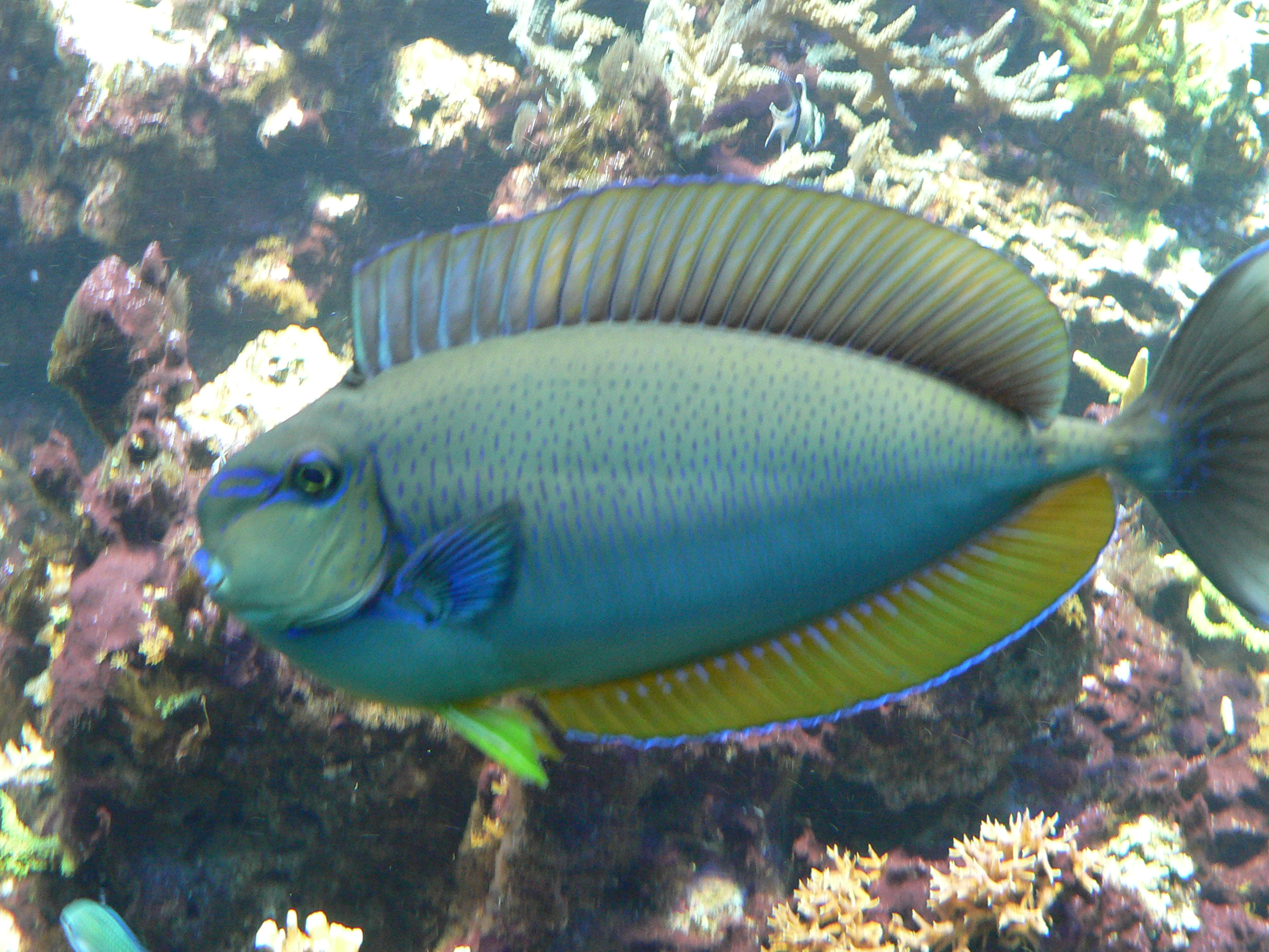 Naso vlamingii “showing off”